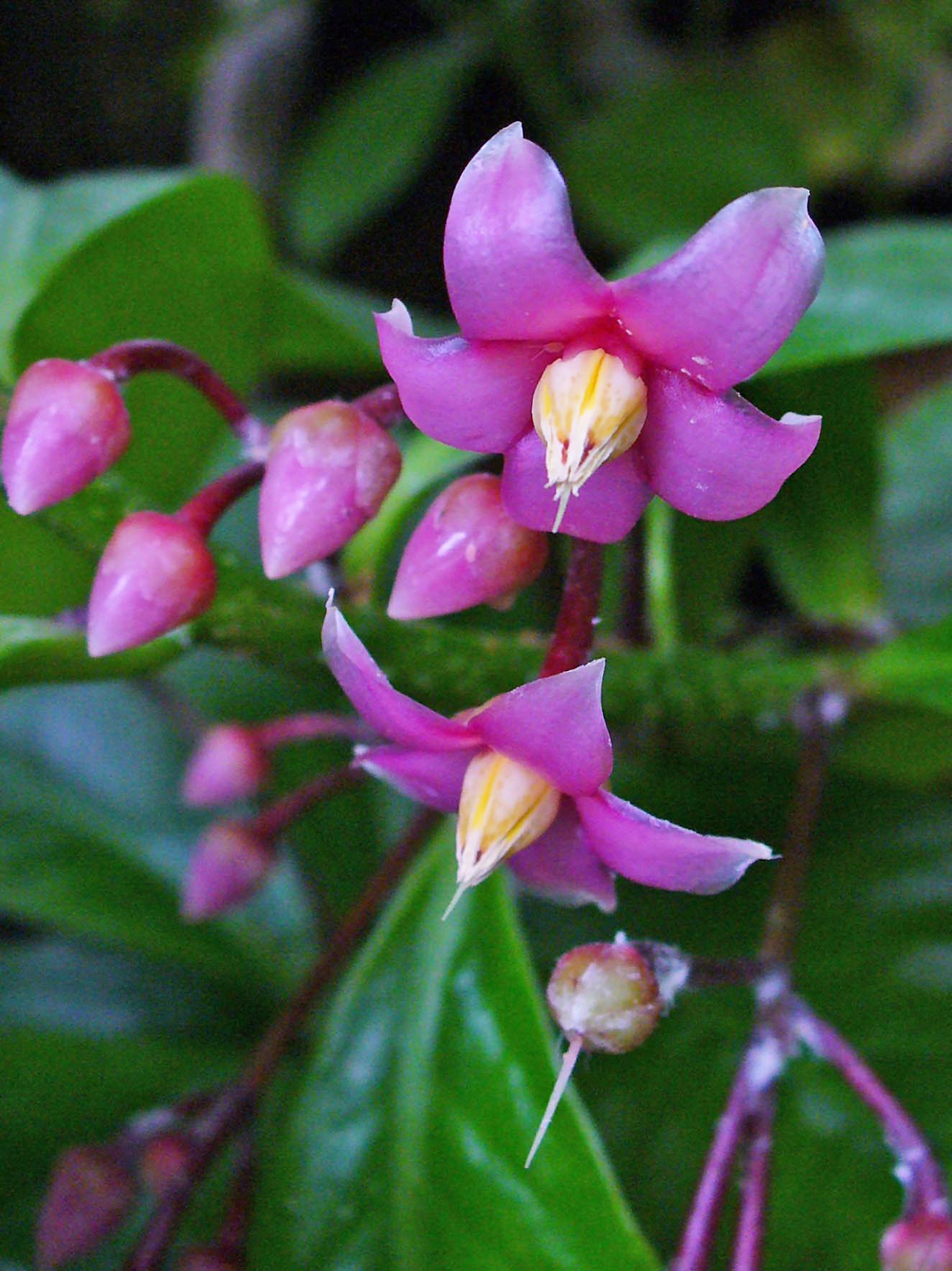 Ardisia wallichii, Primulaceae, inflorescence; Botanical Garden KIT, Karlsruhe, Germany.